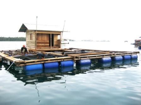 Keramba jaring apung, an Indonesian fish cage with floating nets to rear ocean fish, in East Kalimantan